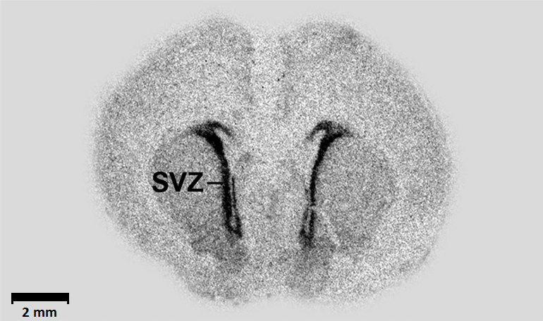 Autoradiography of a brain slice, taken from an embryonal rat. Marker is a 35S-dATP conjugated oligo-nucleotide sequence, which binds to GAD67 (glutamate decarboxylase). High marker concentration (in black) is perferred at the subventricular zone (SVZ). Scale bar is 2 mm. See the original image.